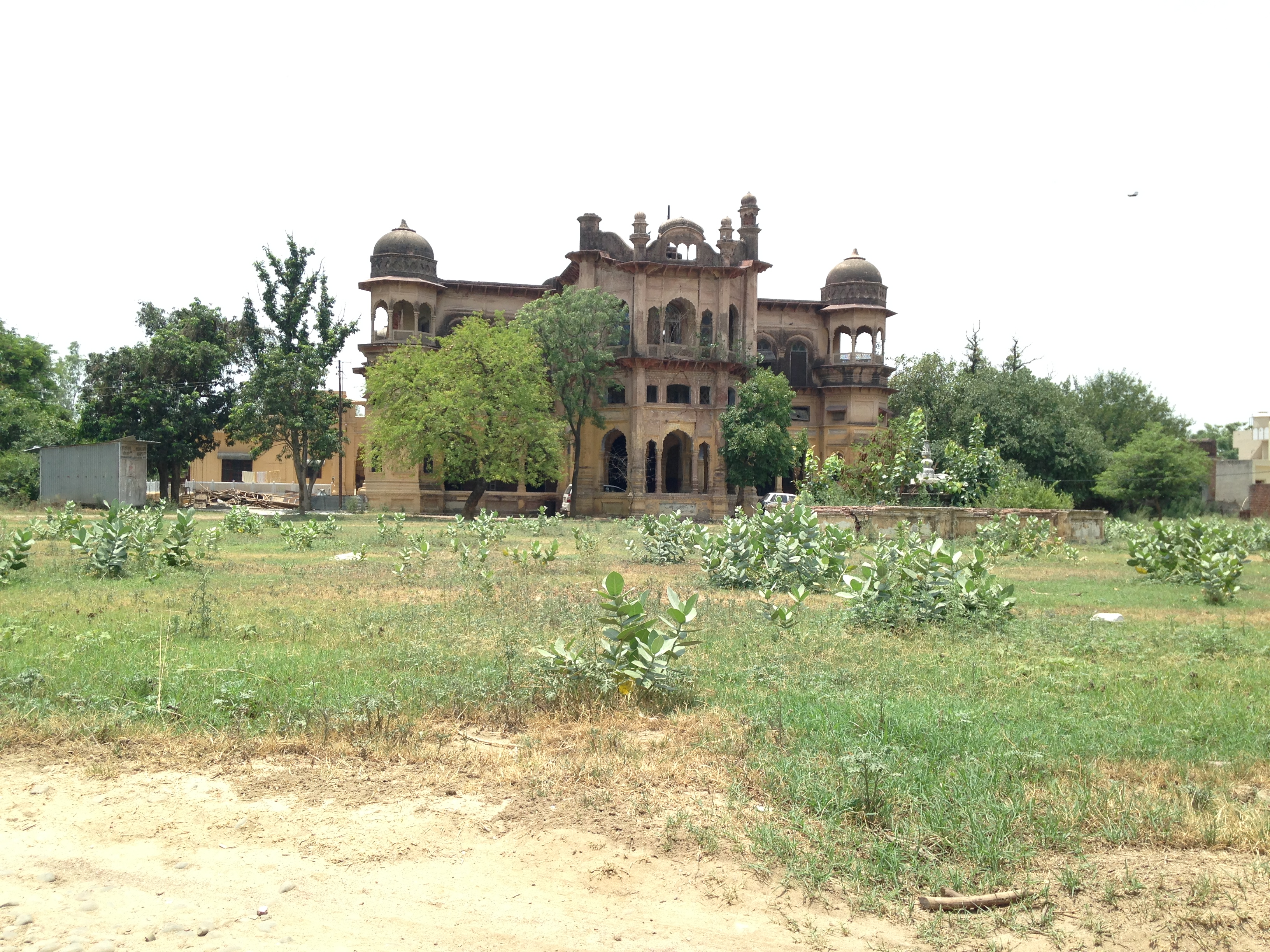 Saleem Haweli in Bassi Pathana